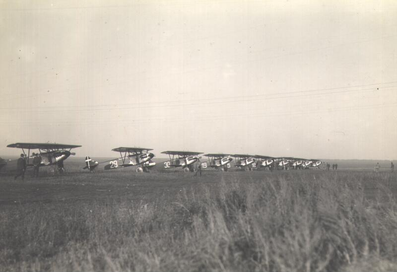 Information added by Wikimedia users.